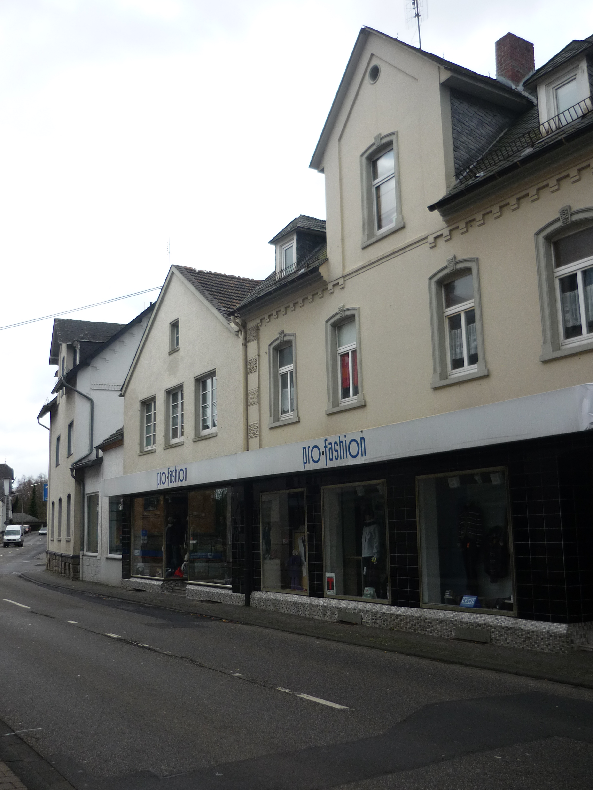 Former Synagogue hachenburg